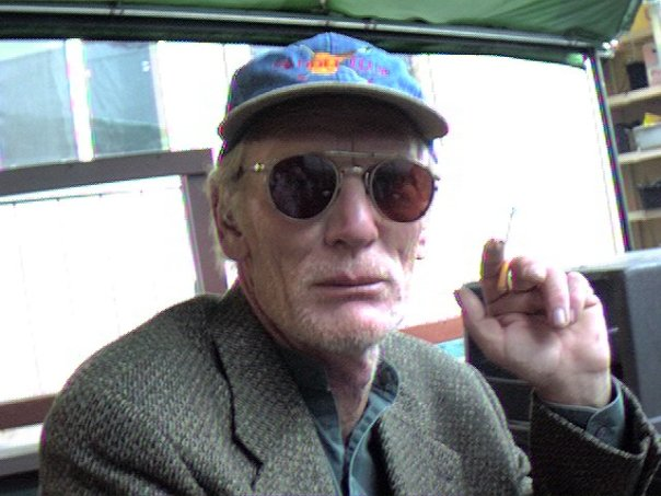 Backstage at the Ringo Starr All-Starr Band concert tour 1997. Ginger Baker joined the band briefly on stage to perform "White Room" in Denver, Colorado.